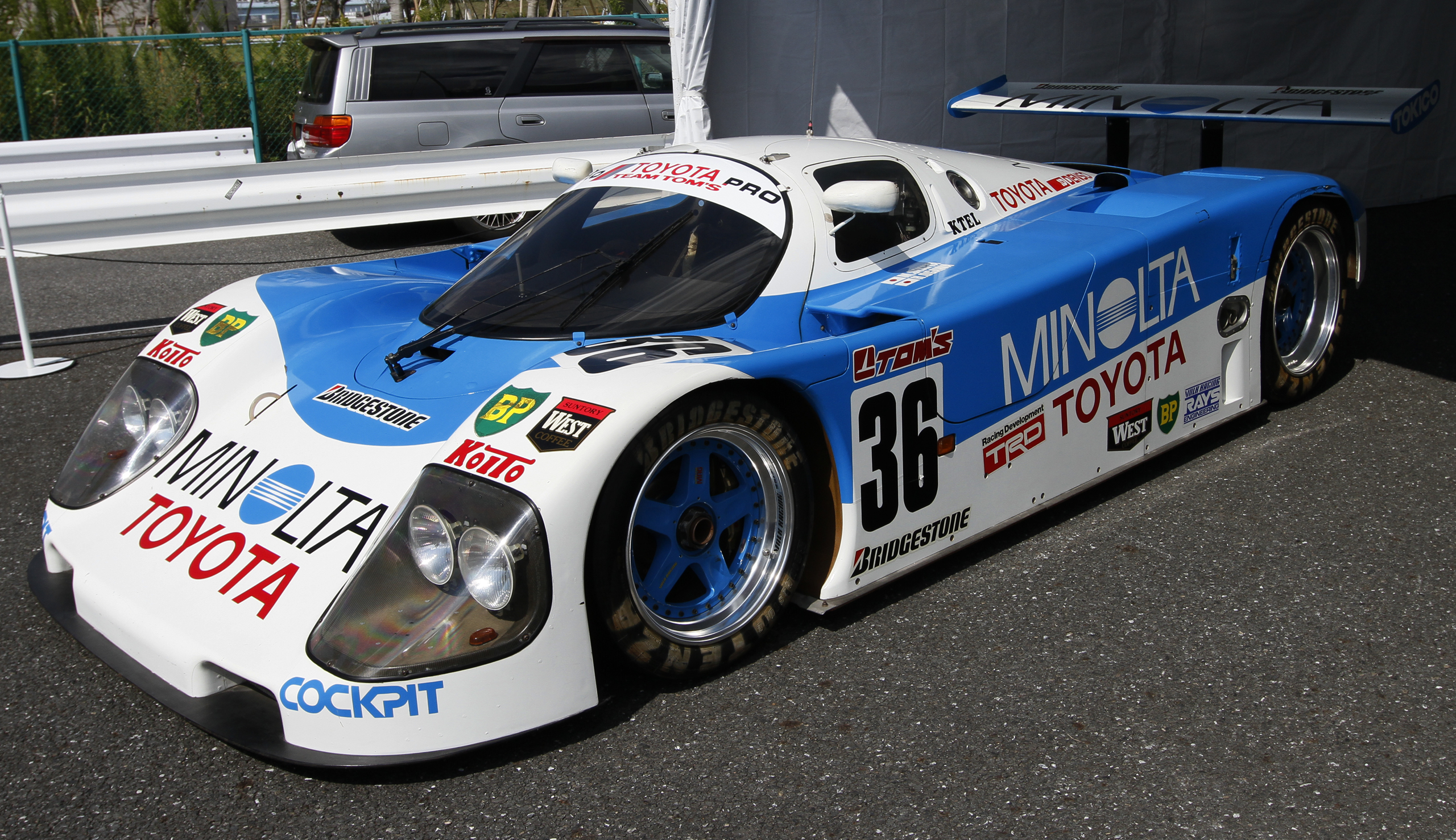 Motorsport Japan 2010: Toyota 90C-V